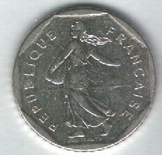 2 French Franc (FRF), 1982, face, based on Paginazero's work